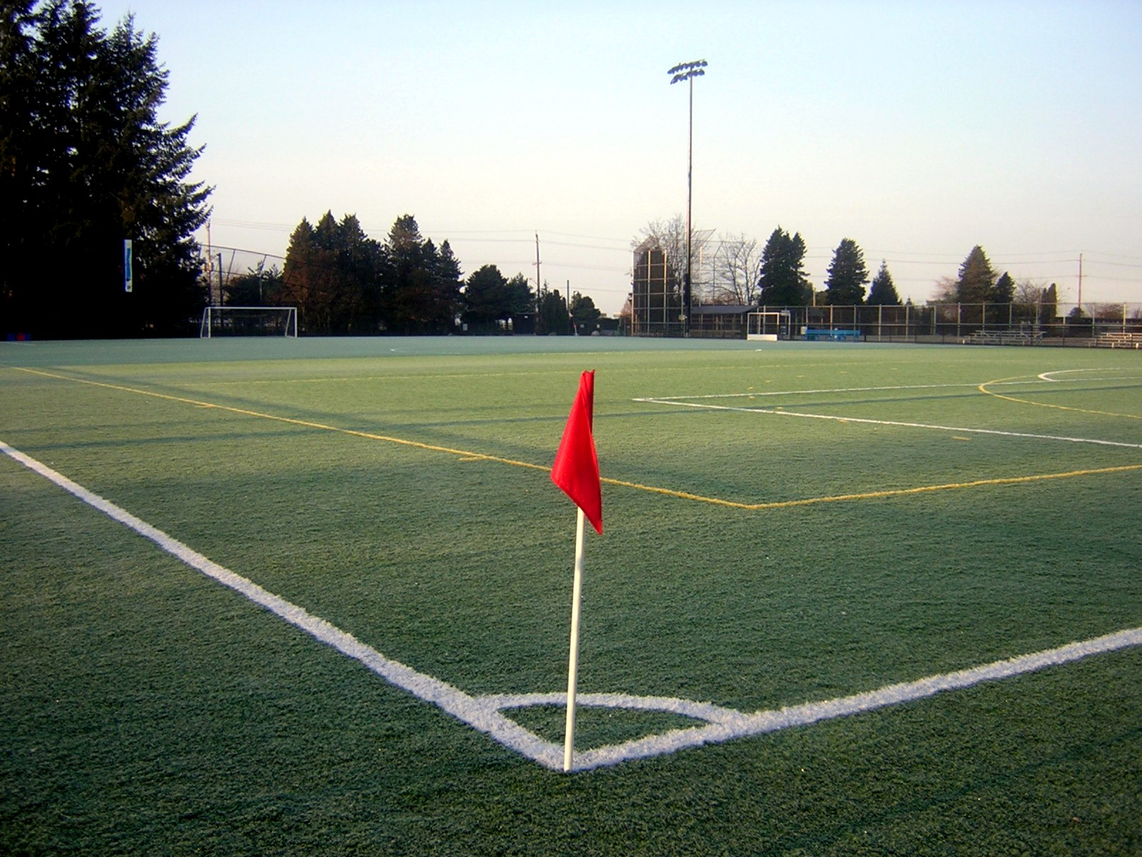 A corner of a football field showing the corner flag.